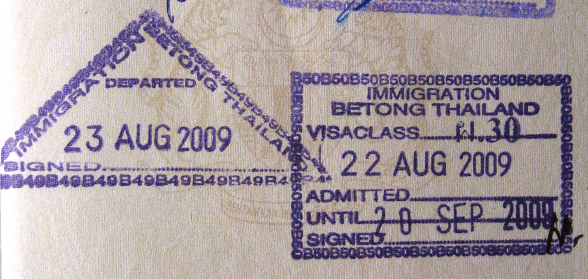 Passport stamps from the Betong border crossing with Malaysia